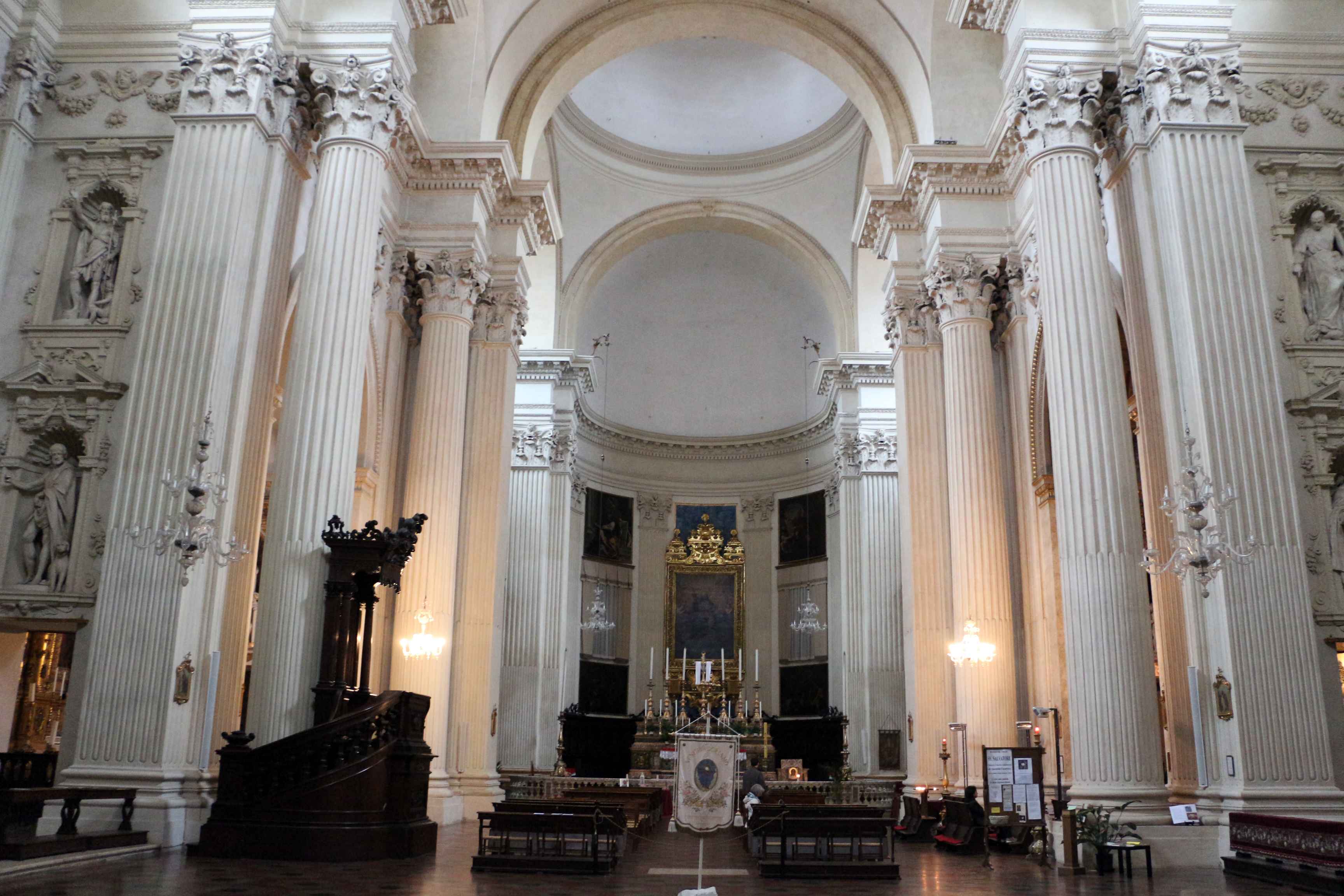 San Salvatore (Bologna)